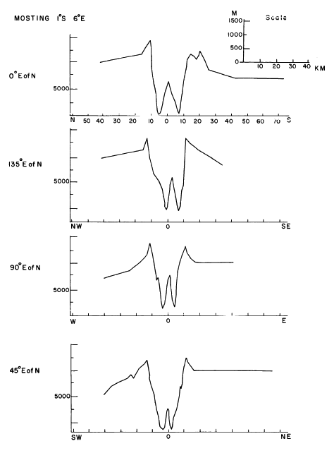 Mösting crater cross section